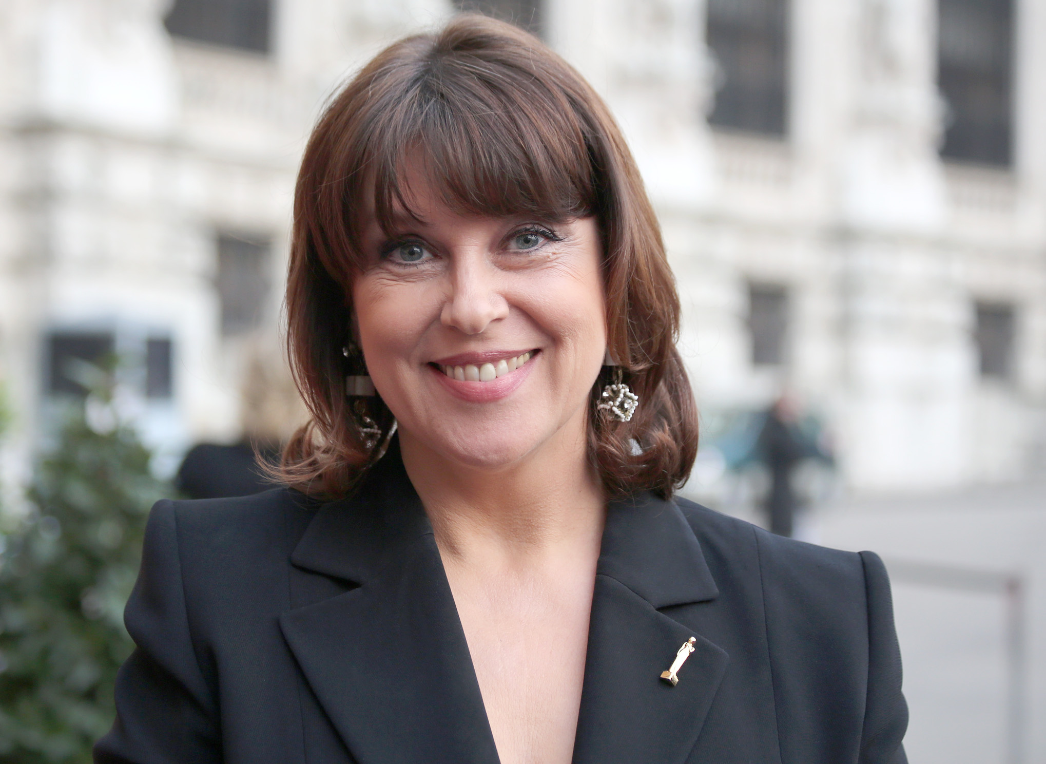 Martina Rupp at the Romy film awards (Hofburg Imperial Palace in Vienna)